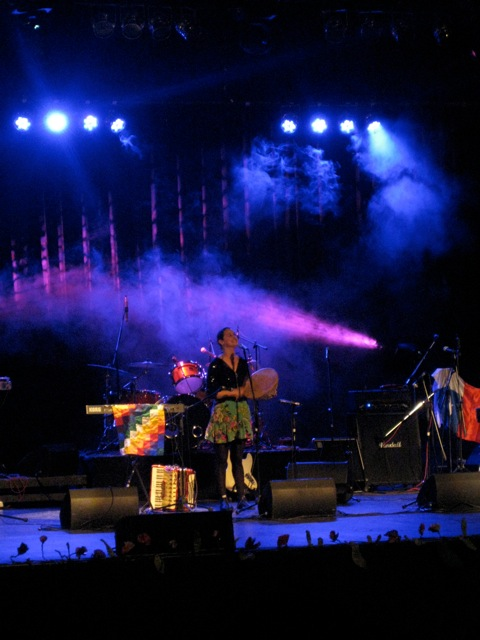 Pascuala Ilabaca at the municipal theater of Valparaiso on October 4, 2011. She and her band were one of several that performed in honor of Chilean folklorist Violeta Parra's birthday.